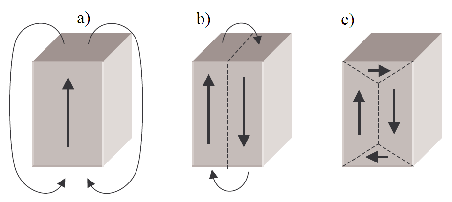 Explanation of magnetic domains on the basis of energy minimisation: a) single domain - a lot of magnetic energy is contained in volume around the magnetised body, b) two domains - this reduces the magnetic energy due to shorter way the magnetic field has to travel in the air, c) multiple domains with closure domains - minimum energy state, because all magnetic field contained in the ferromagnetic body. (See also: Bozorth R.M., Ferromagnetism, D. Van Nostrand Company, Inc., Princeton, New Jersey, USA, 1951)